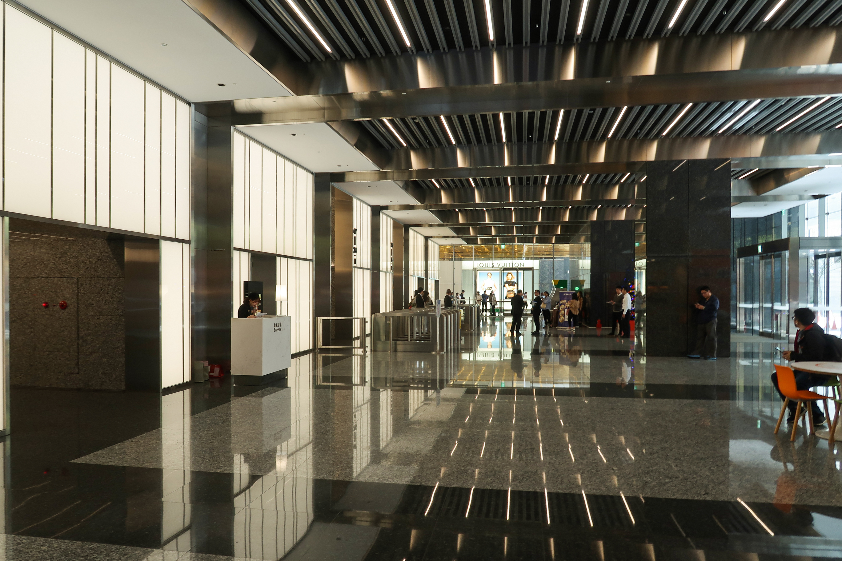 Cathay Landmark Office Lobby